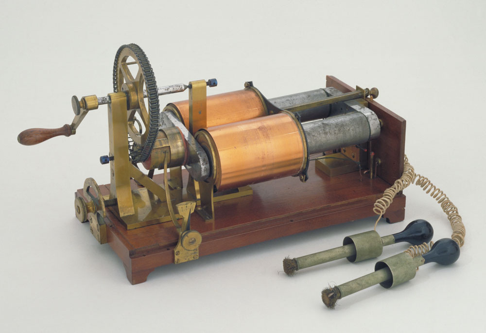 ArtistDeleuil firmAuthorGuillaume Benjamin de Boulogne DuchenneDescription